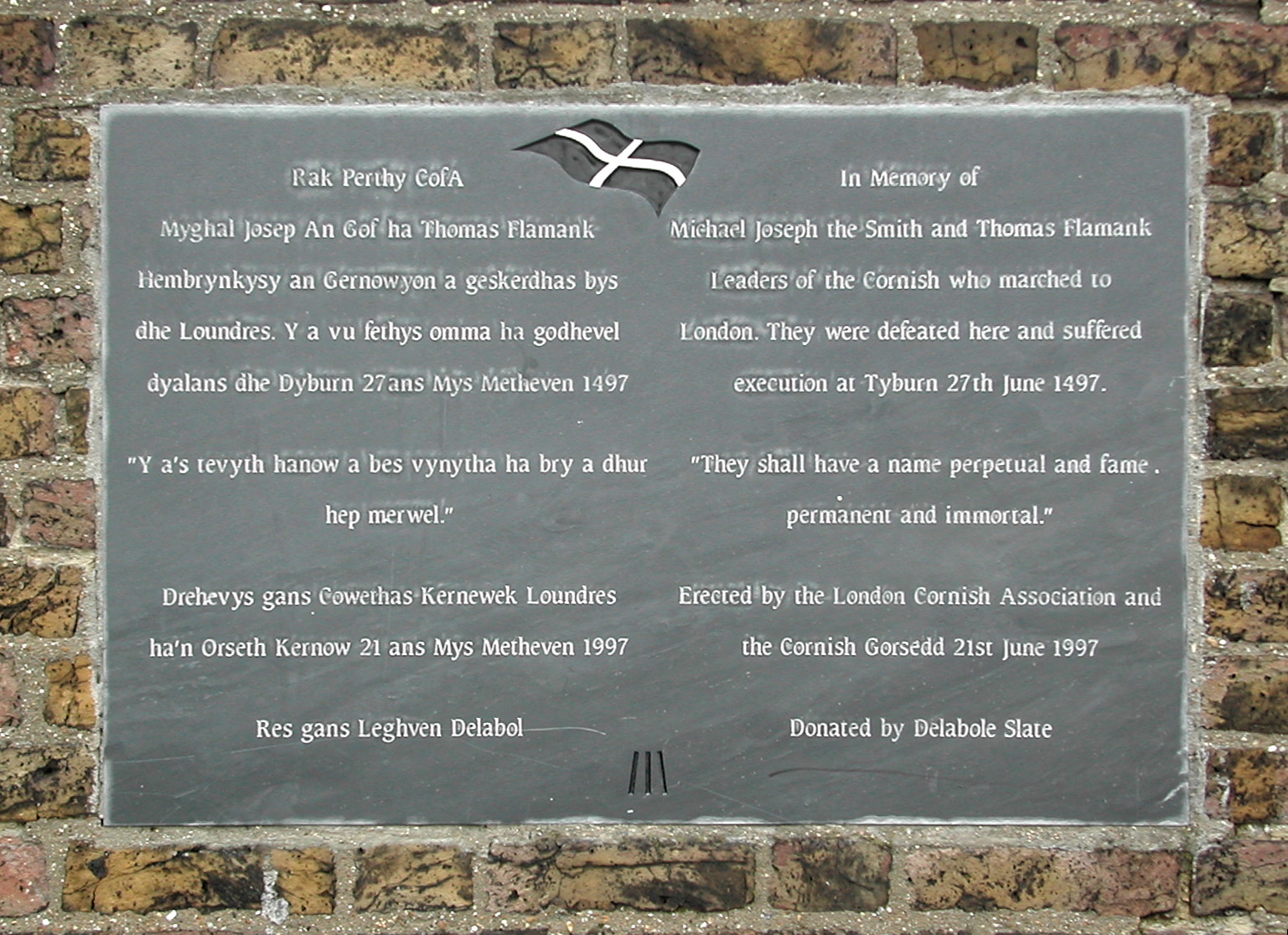 Commemorative plaque for Michael Joseph the Smith (An Gof) mounted on the north side of Blackheath common, south east London, near the south entrance to Greenwich Park. Taken by Chris Angove, October 2006